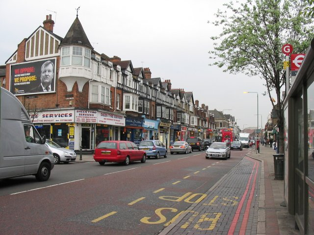 Post Office, Sheen.